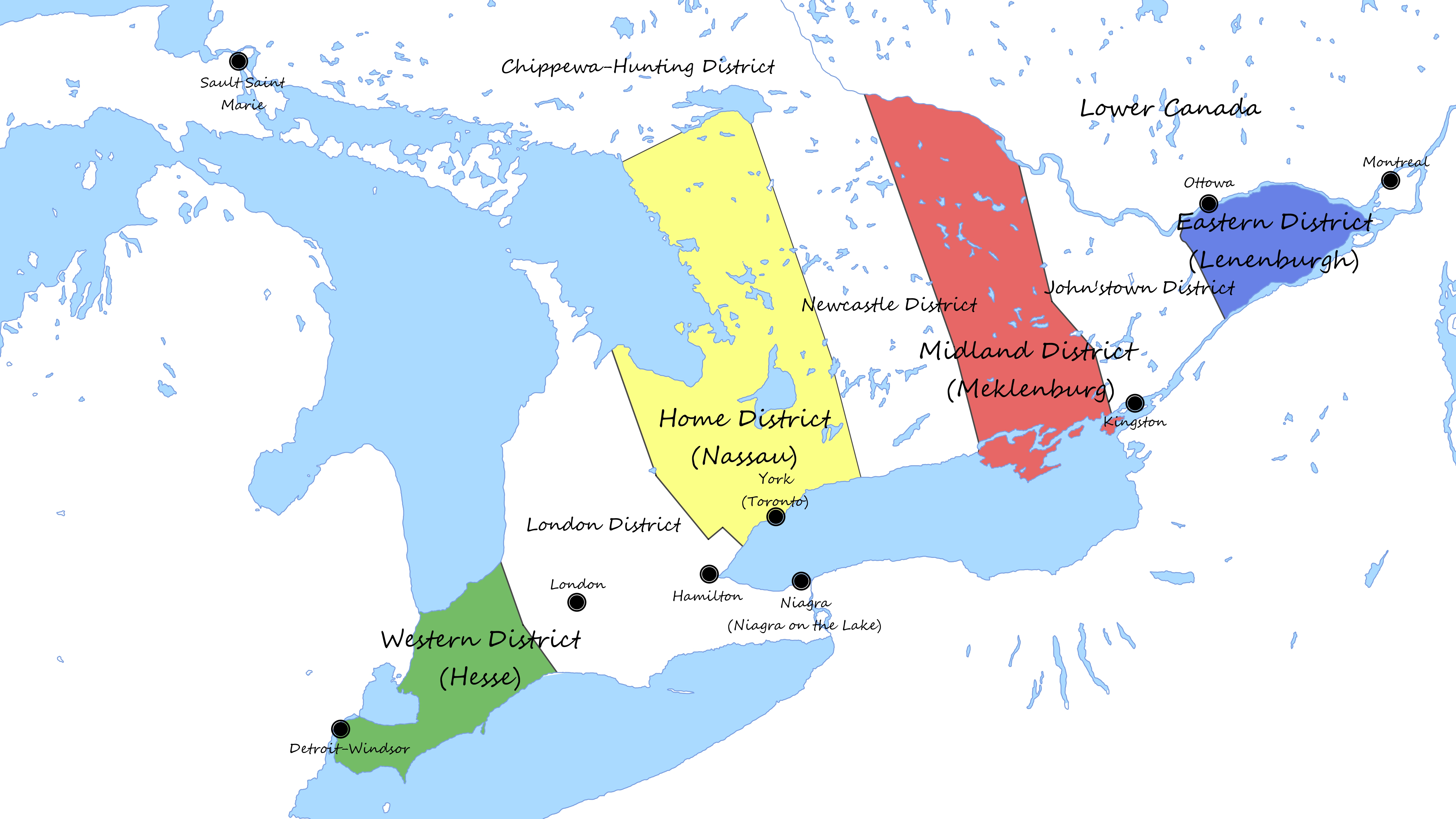 This Map shows the Districts of Upper Canada in the 1800s.